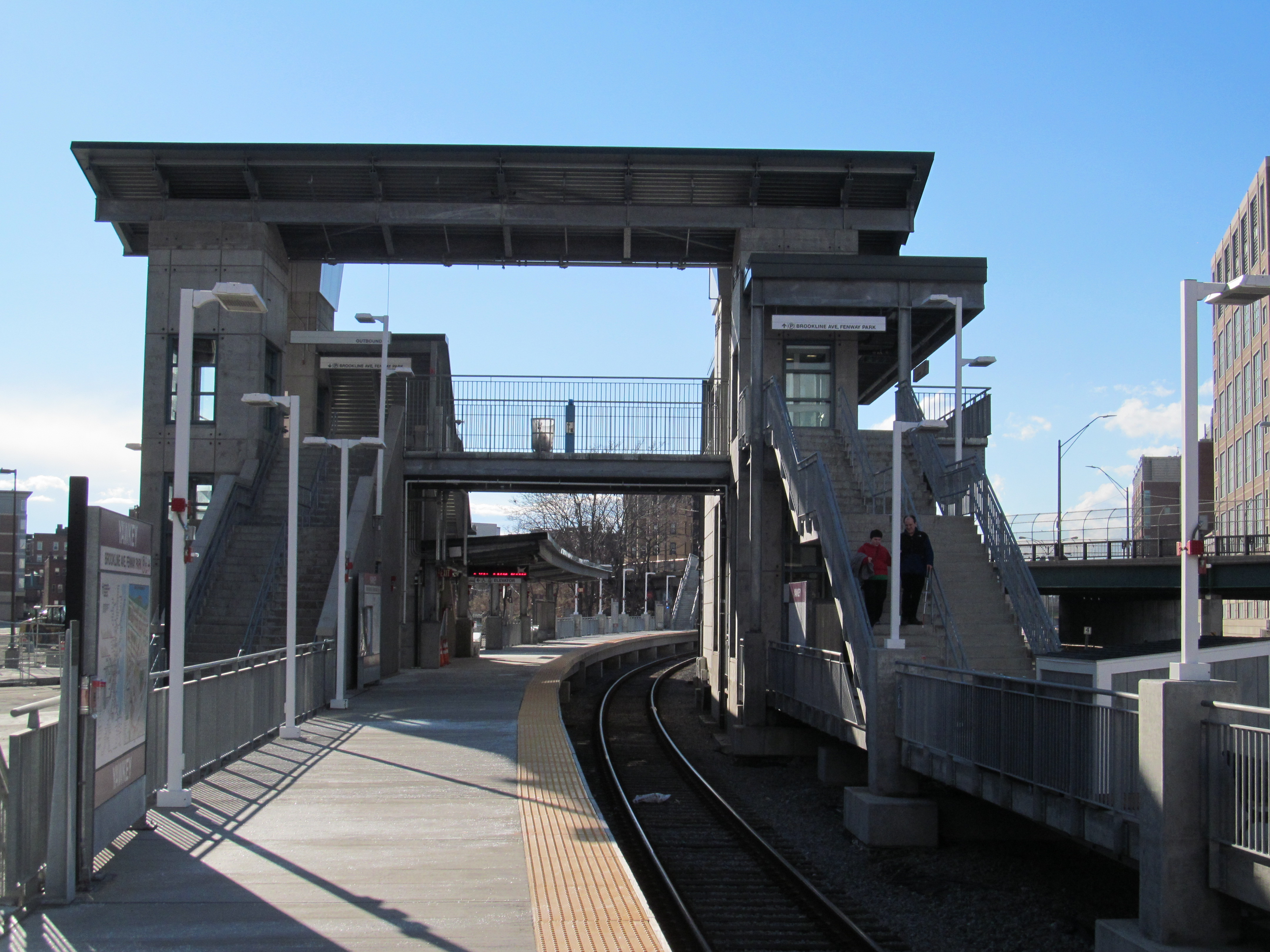 The pedestrian bridge at the new Yawkey station, viewed from the inbound platform